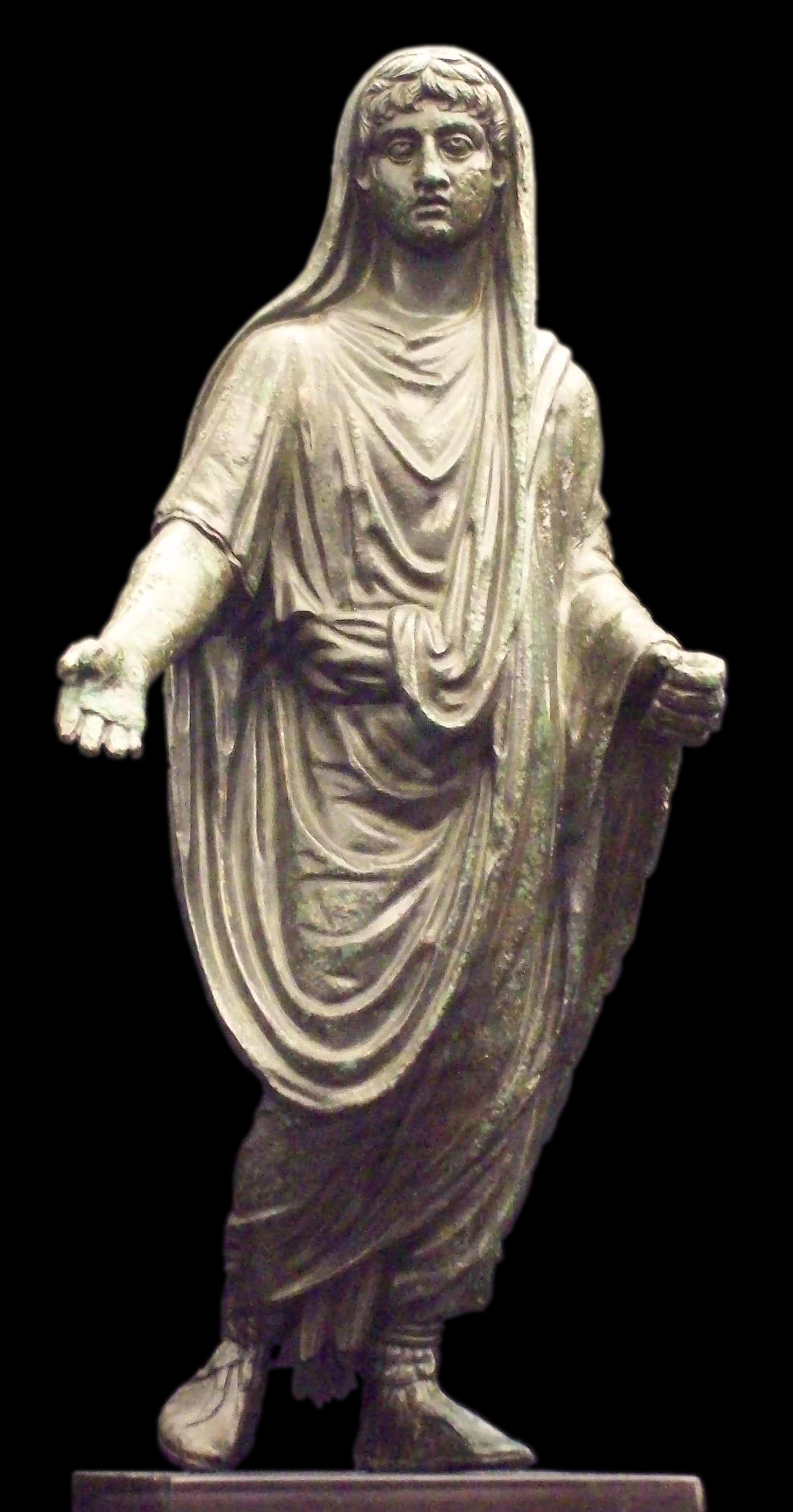 Statuette of a Roman genius depicted as a pater familias.